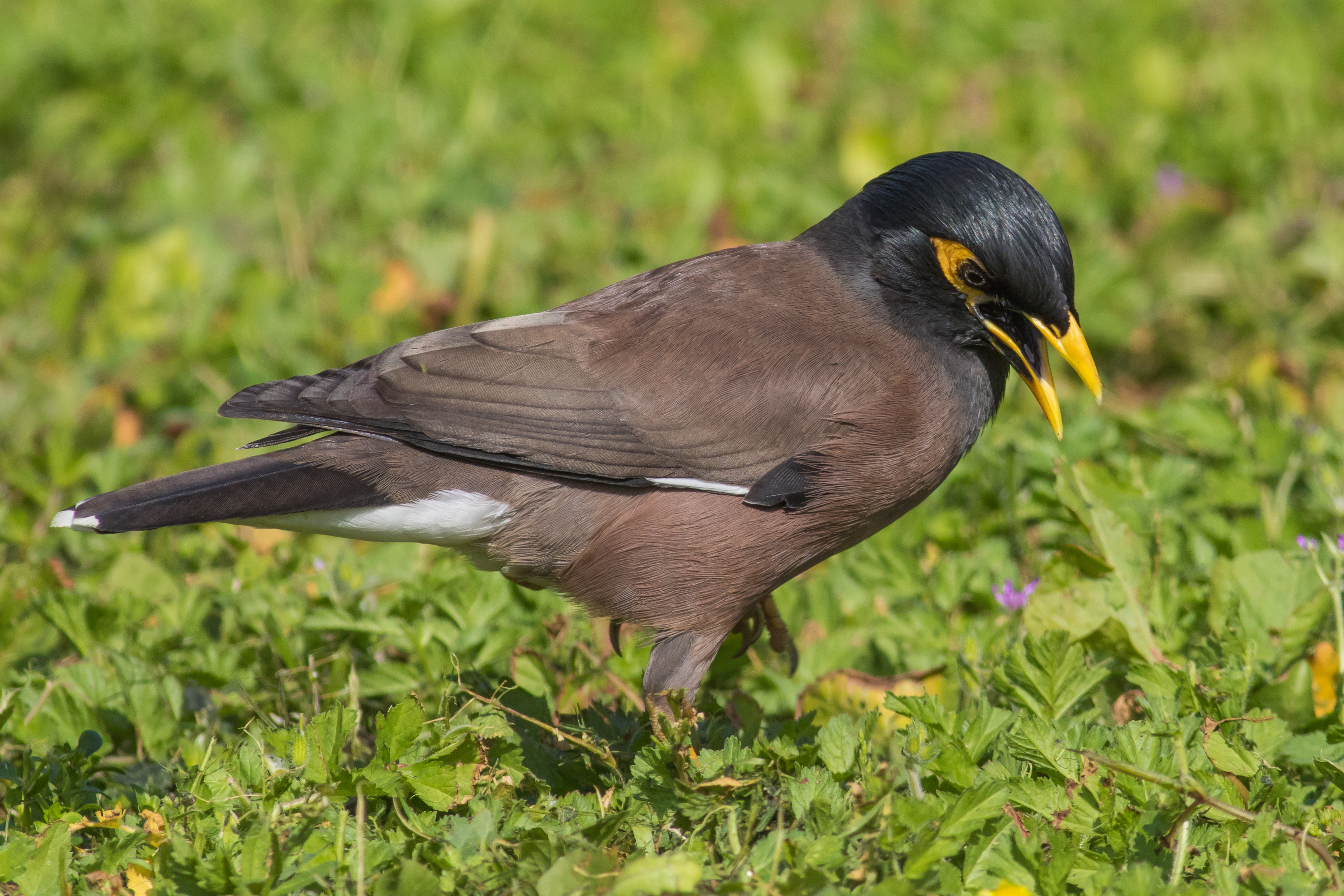 Common myna, Acridotheres tristis (feral), , Ashkelon National Park, Israel.